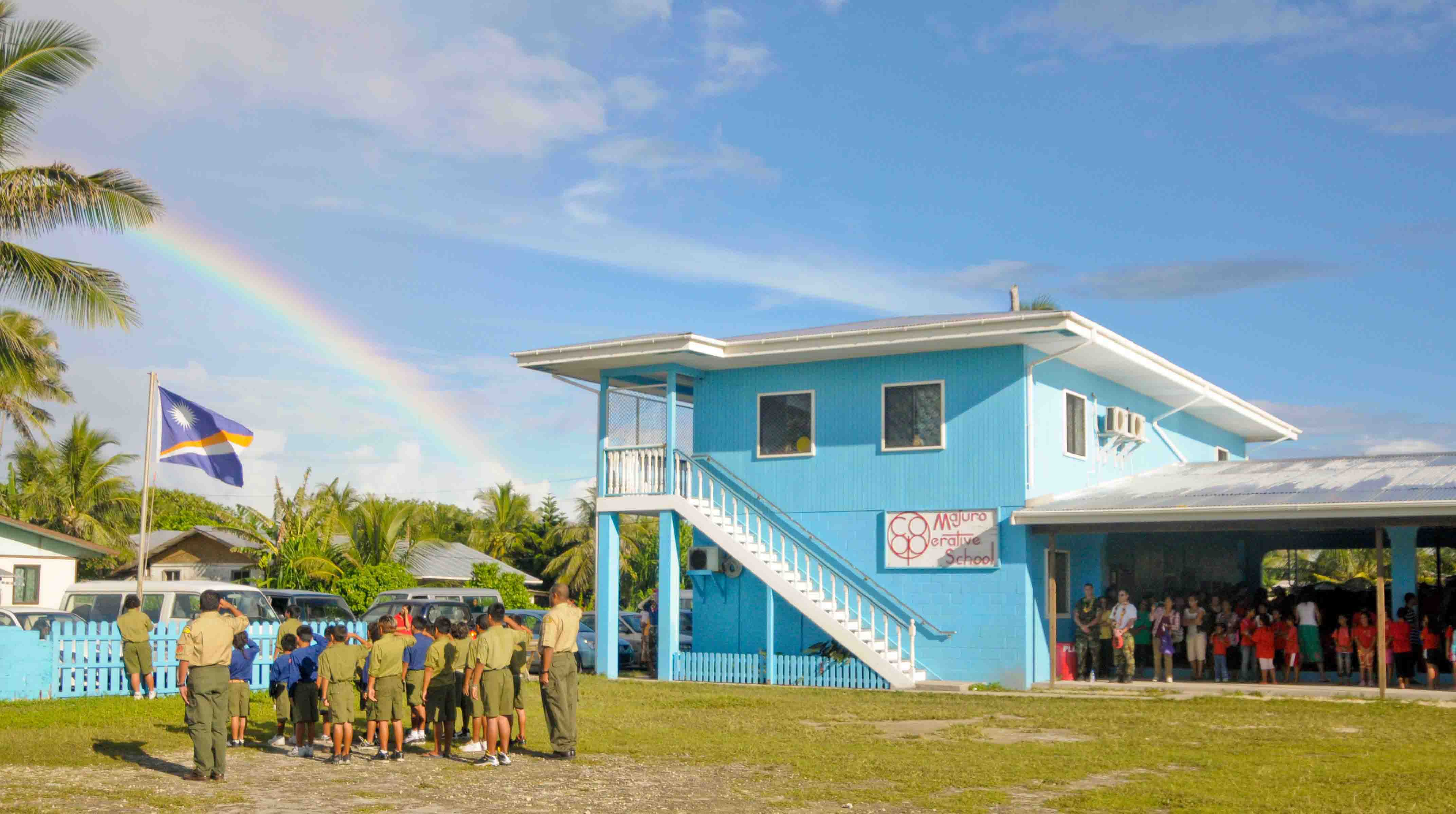 MAJURO, Marshall Islands (Sept. 14, 2009) Students at the Majuro Cooperative School raise the Republic of Marshall Islands flag at a flag raising ceremony during a Pacific Partnership 2009 community service project. Pacific Partnership is a humanitarian and civil assistance mission executing a variety of humanitarian civic action missions in the Pacific Fleet area of responsibility. (U.S. Navy photo by Mass Communication Specialist 2nd Class Joshua Valcarcel/Released)